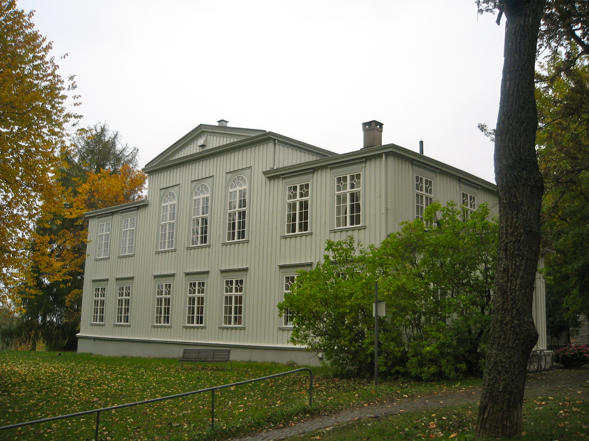 The International House, Campus NTNU Gløshaugen, Trondheim. West facade. Originally the main building of Gløshaugen west, erected approx. 1850. Architect unknown.